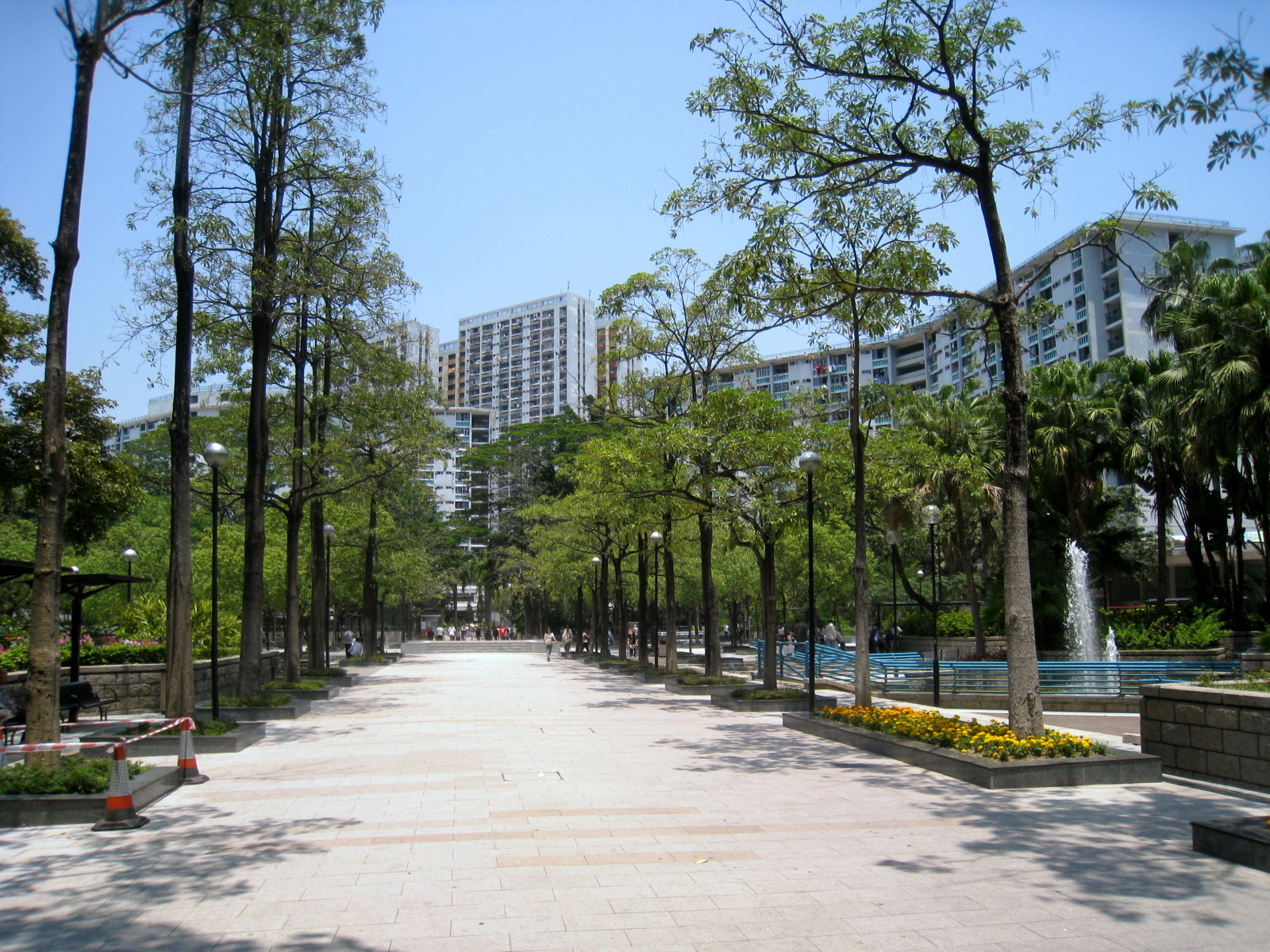 Tai Po Central Town Square 大埔中心廣場